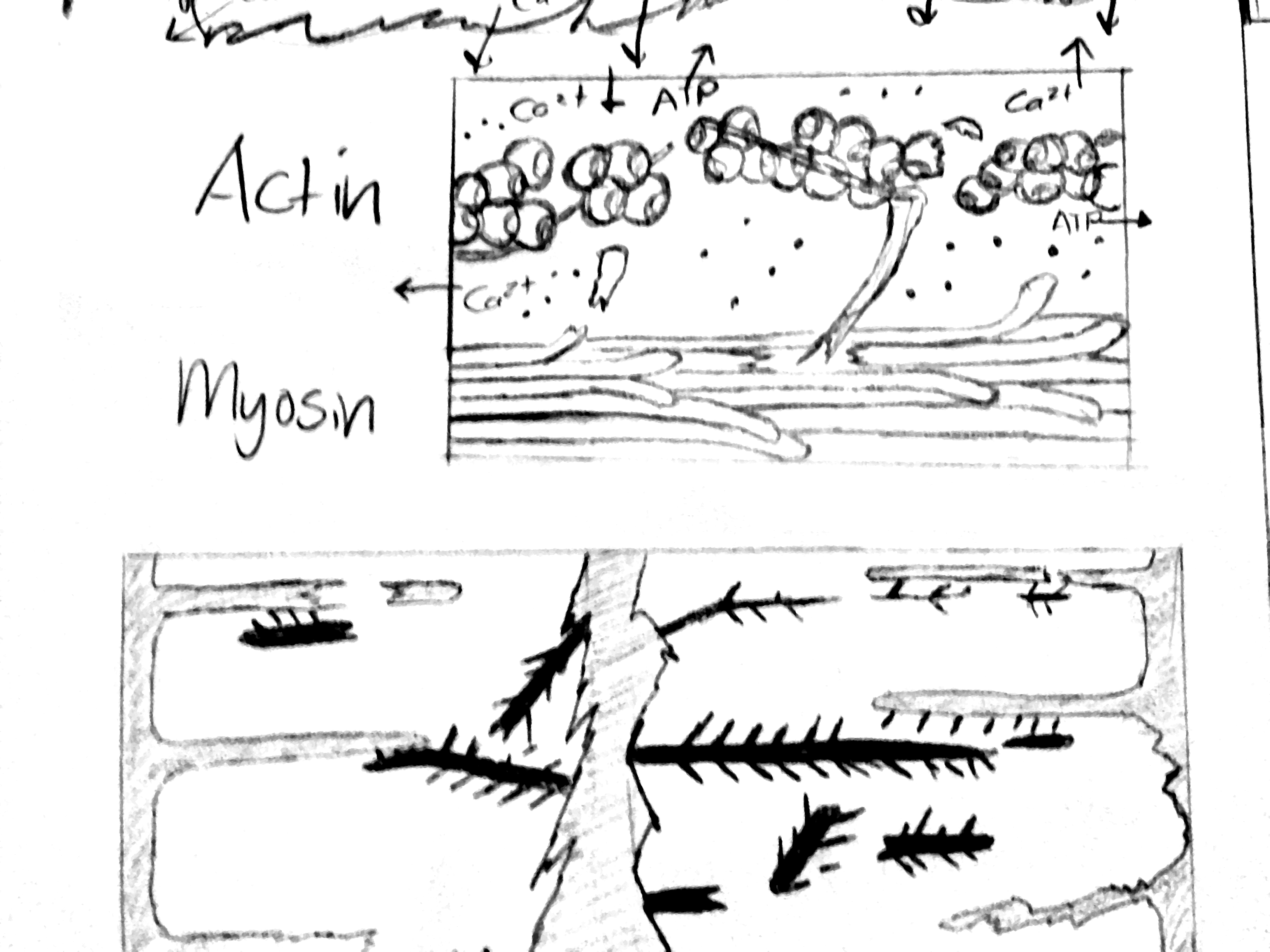 Motor end plate of a person with rhabdomyolysis.